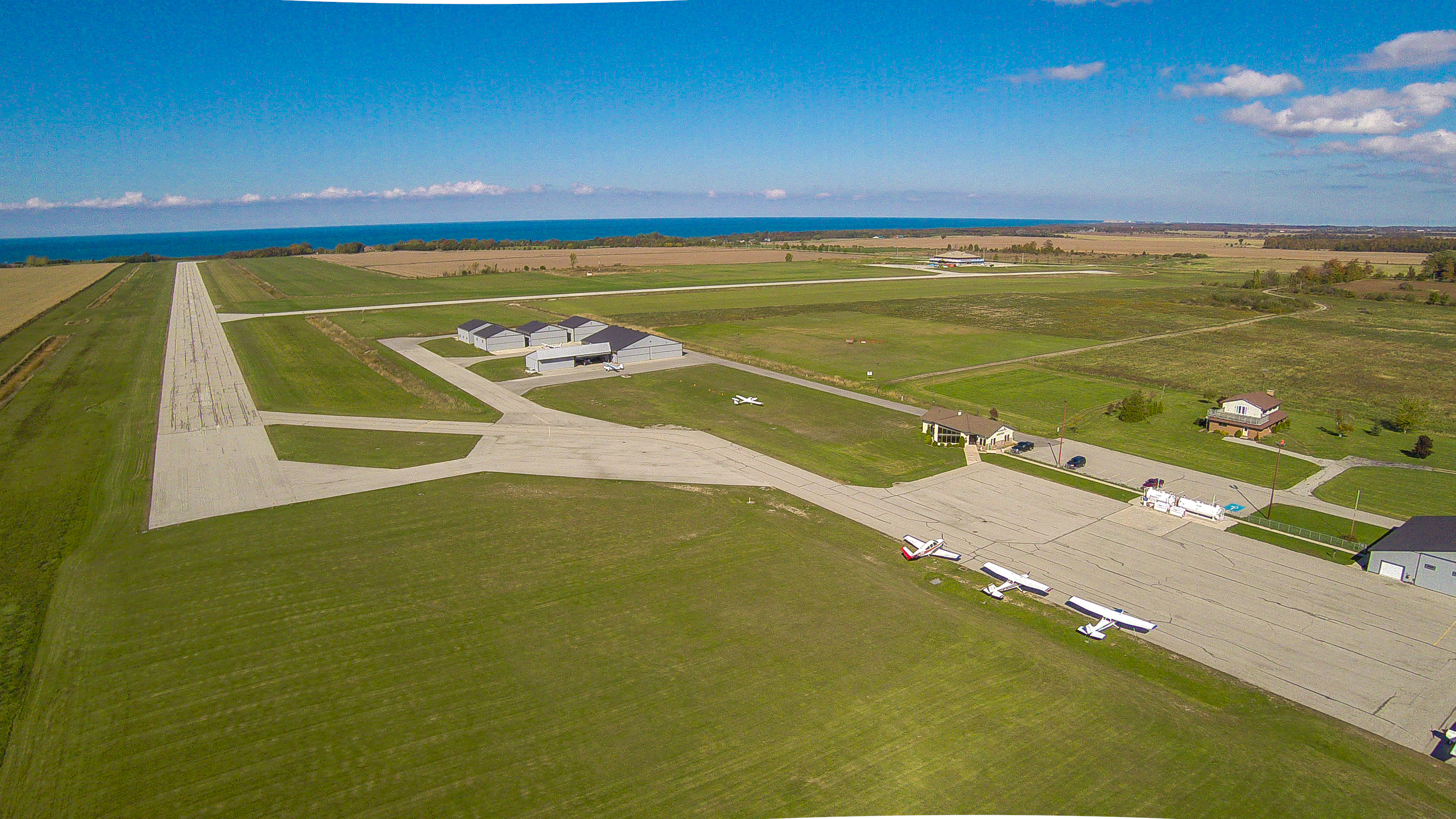 Aerial photo of runways, ramps, taxiways, apron, hangars and terminal building at CYKM.